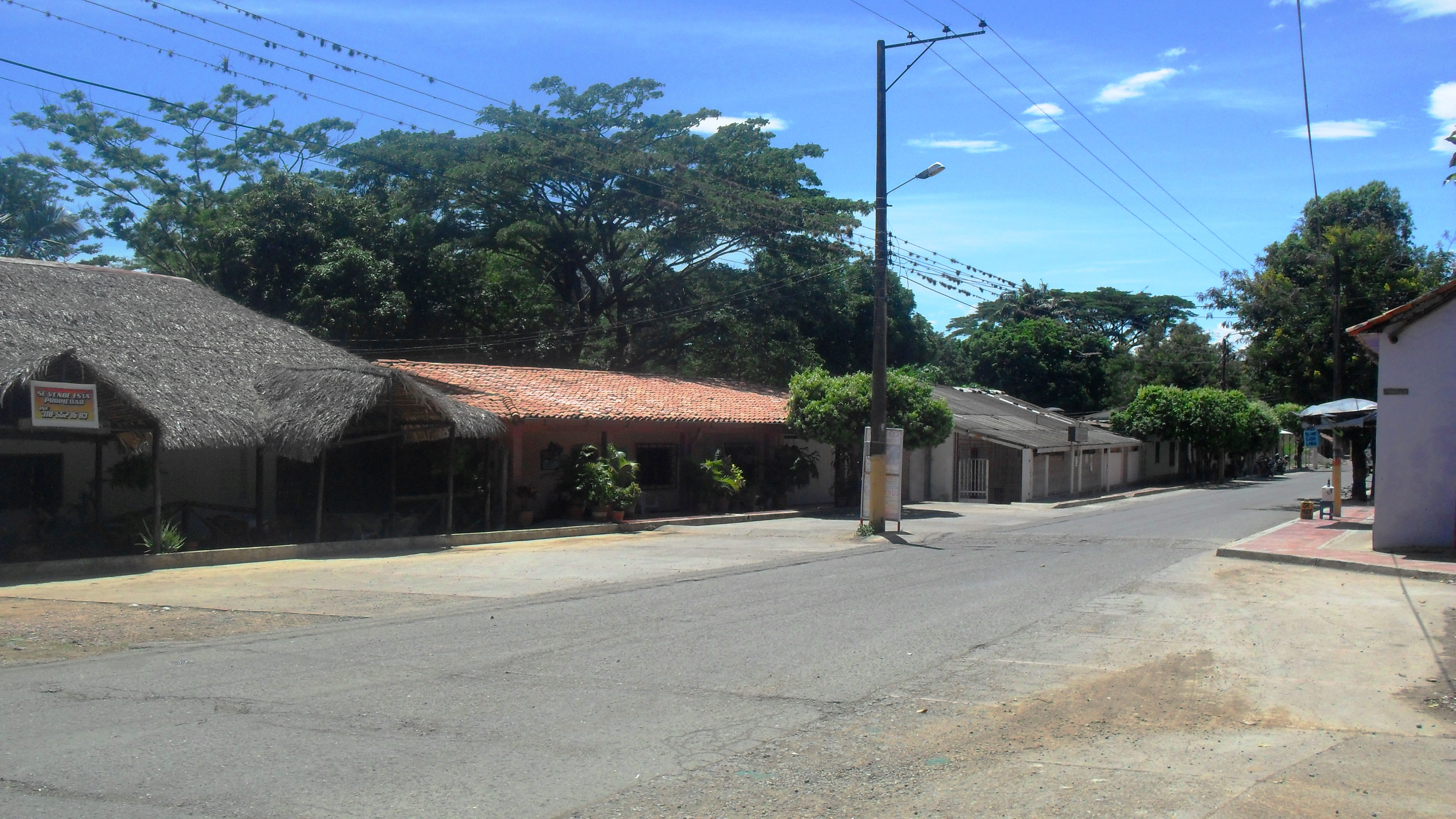 Cúcuta-Santiago road in Cornejo village,North Santander,Colombia.